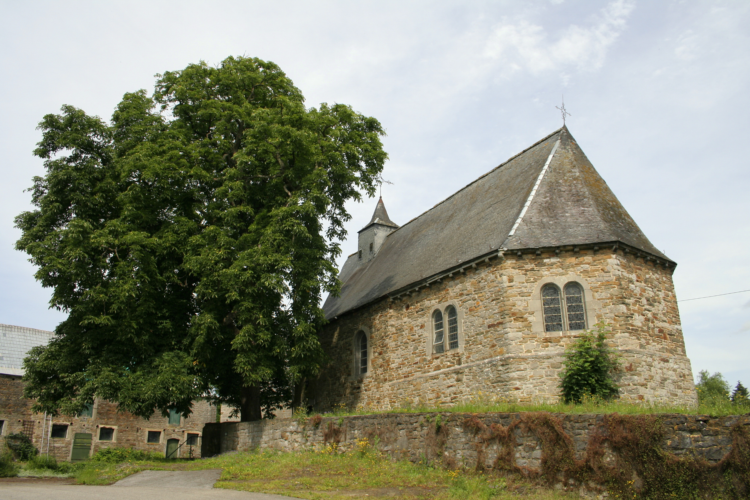 Hamois (Belgique), the St Agatha chapel of Hubinne (XIII - XVIIth centuries).